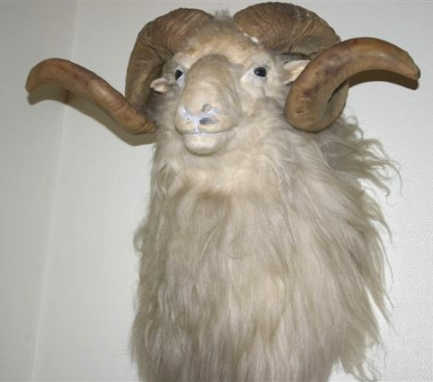 Föroya Bjór, Faroe Islands: The ram is not only the heraldic animal of the Faroes, but also of the brewery.